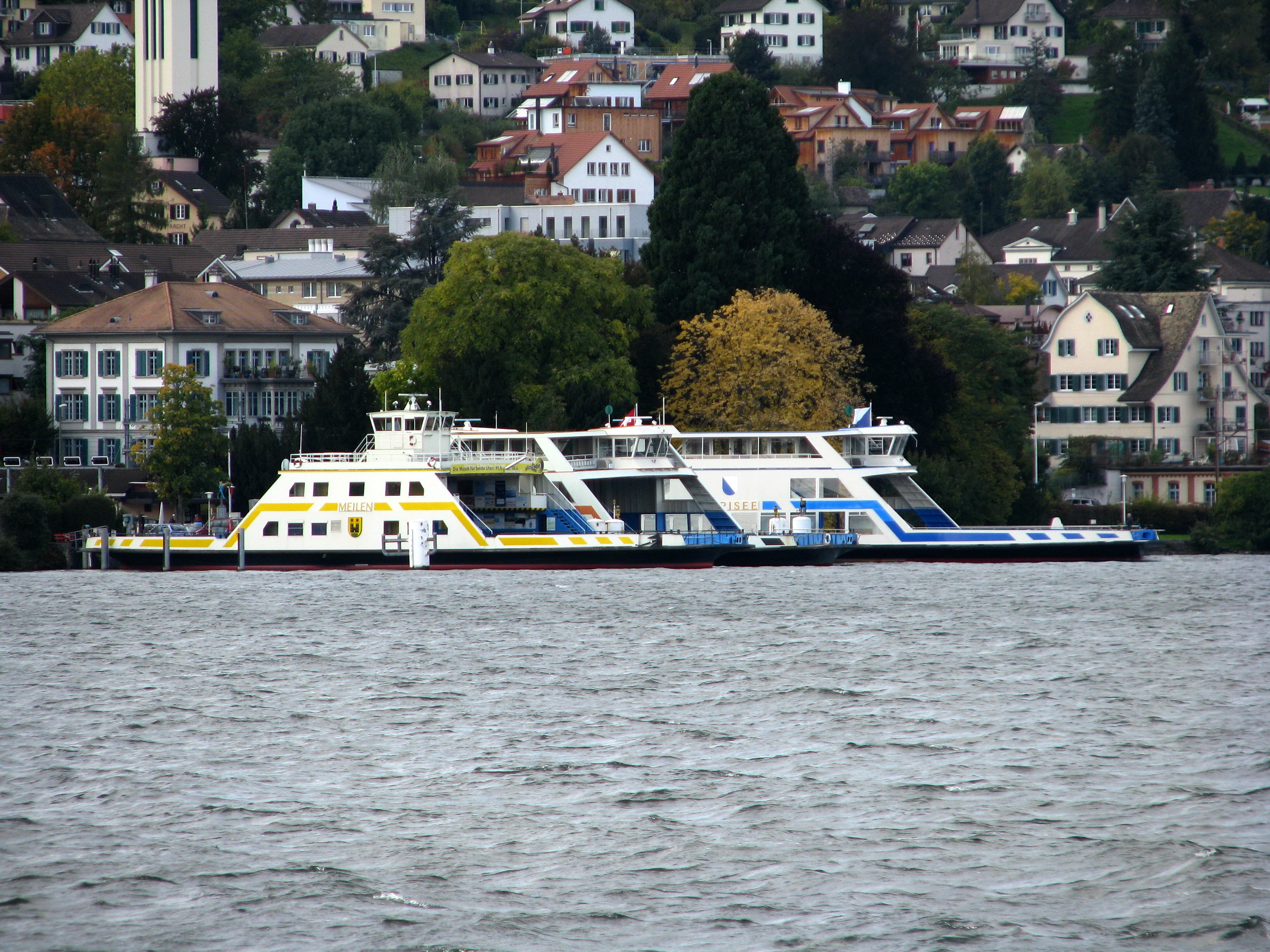 Lake Zürich : Ferry ships «Meilen», «Schwanen» and «Zürisee» at Horgen.